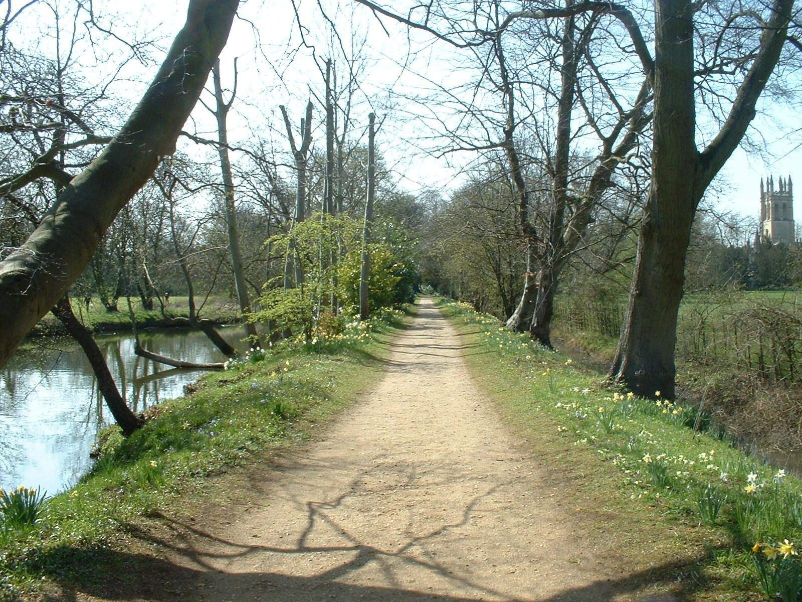 Addison's Walk, Magdalen College, Oxford, looking back towards the College. From